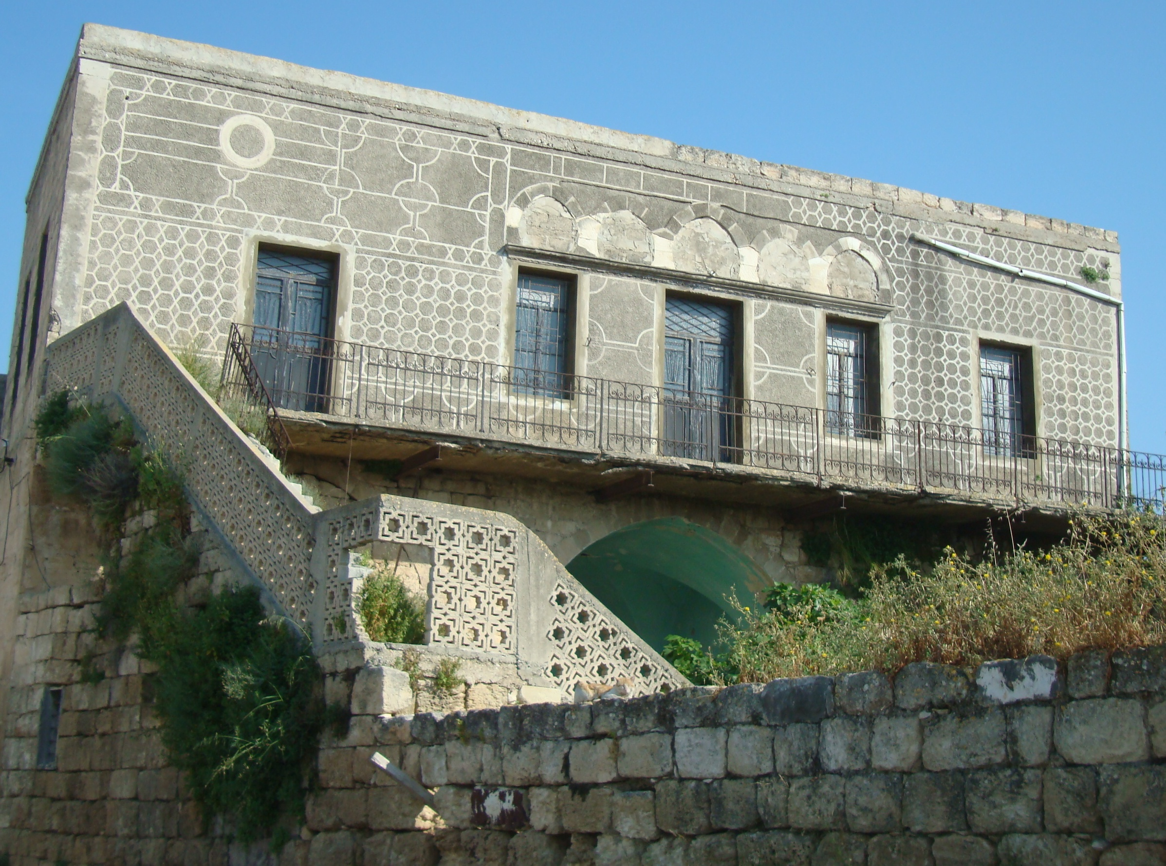 Sheikh Hussein Moghnieh House